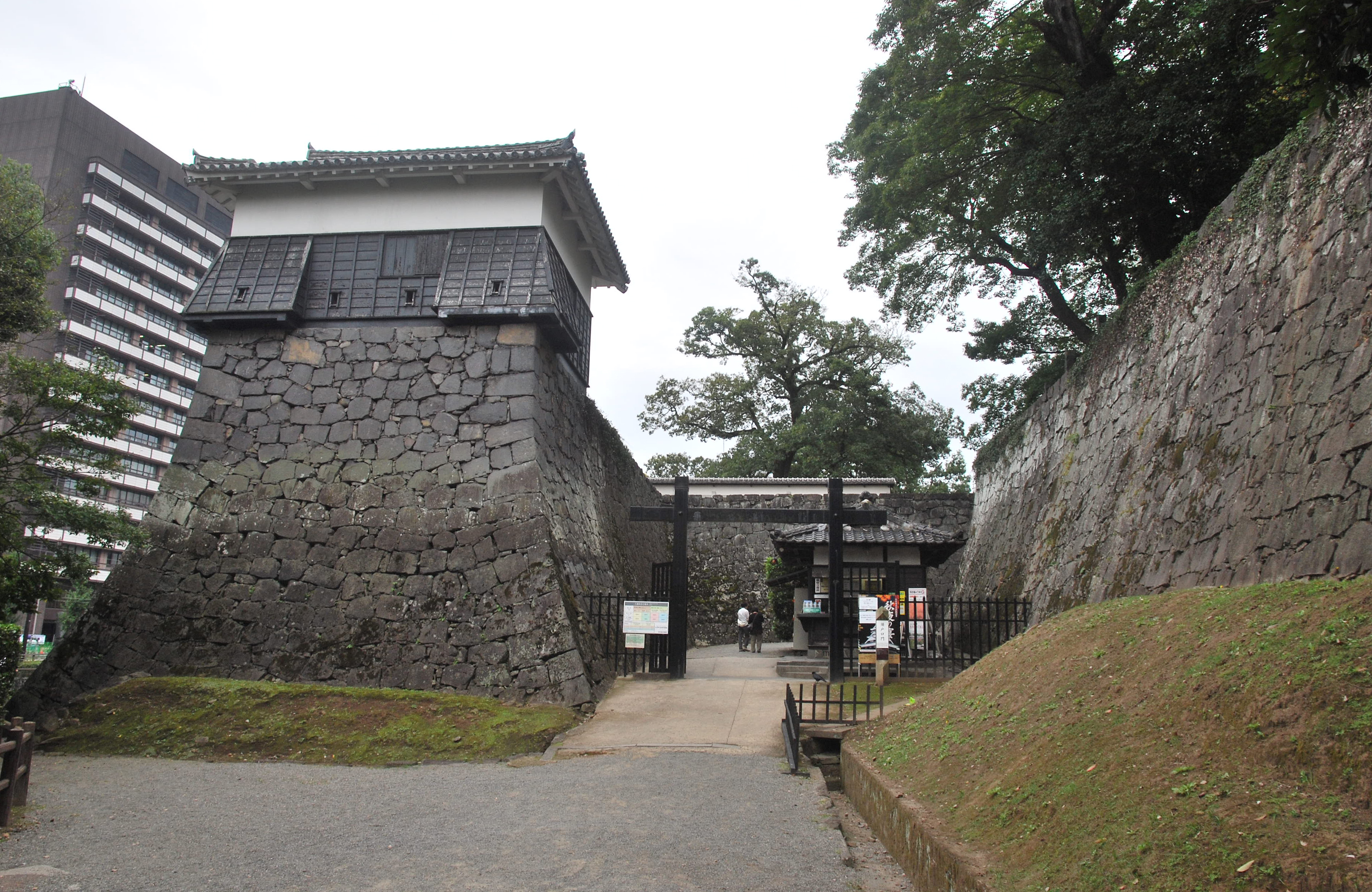 Hirao-yagura and Sutoguchi-mon entrance, Kumamoto Castle